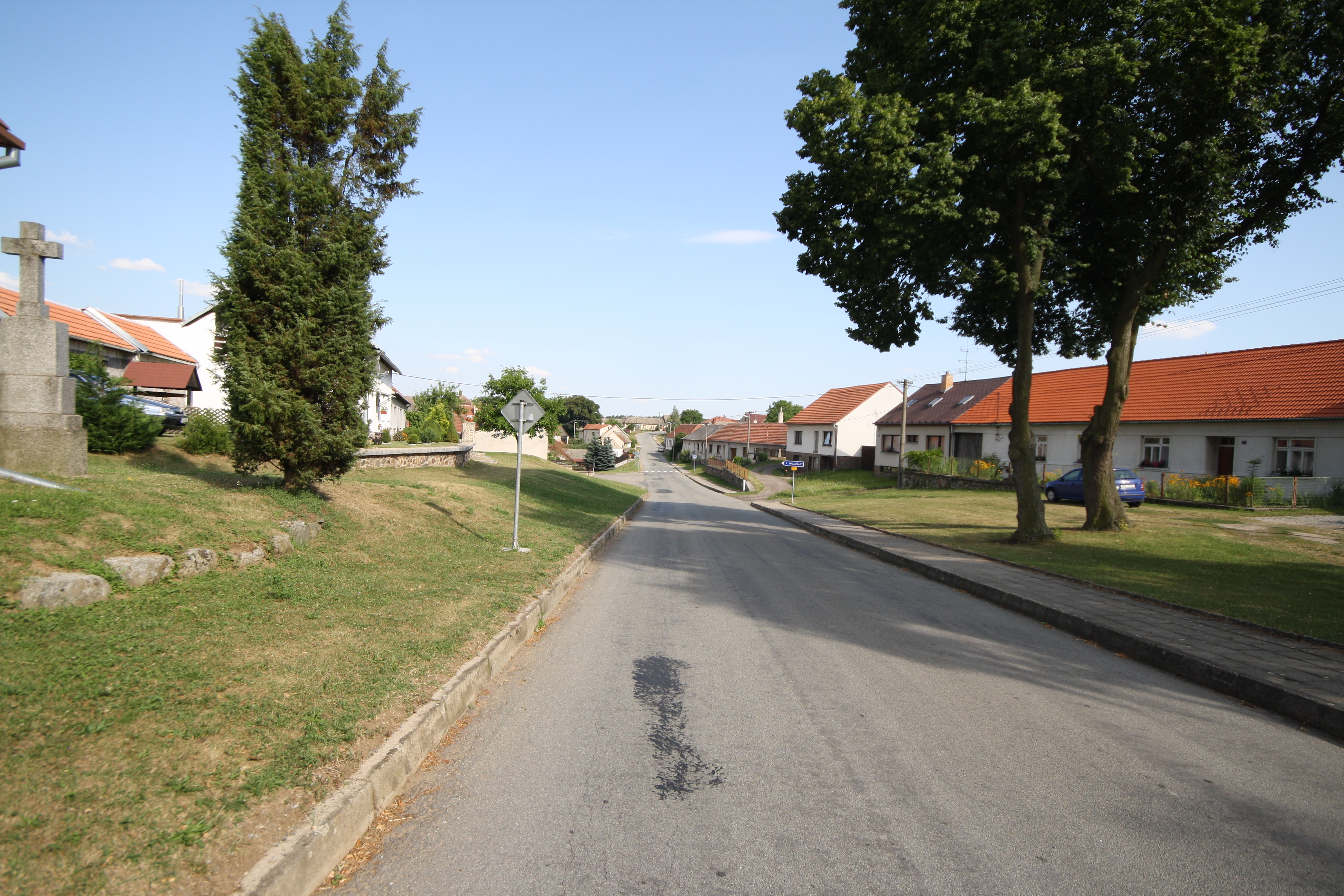 Center of Ocmanice, Třebíč District.